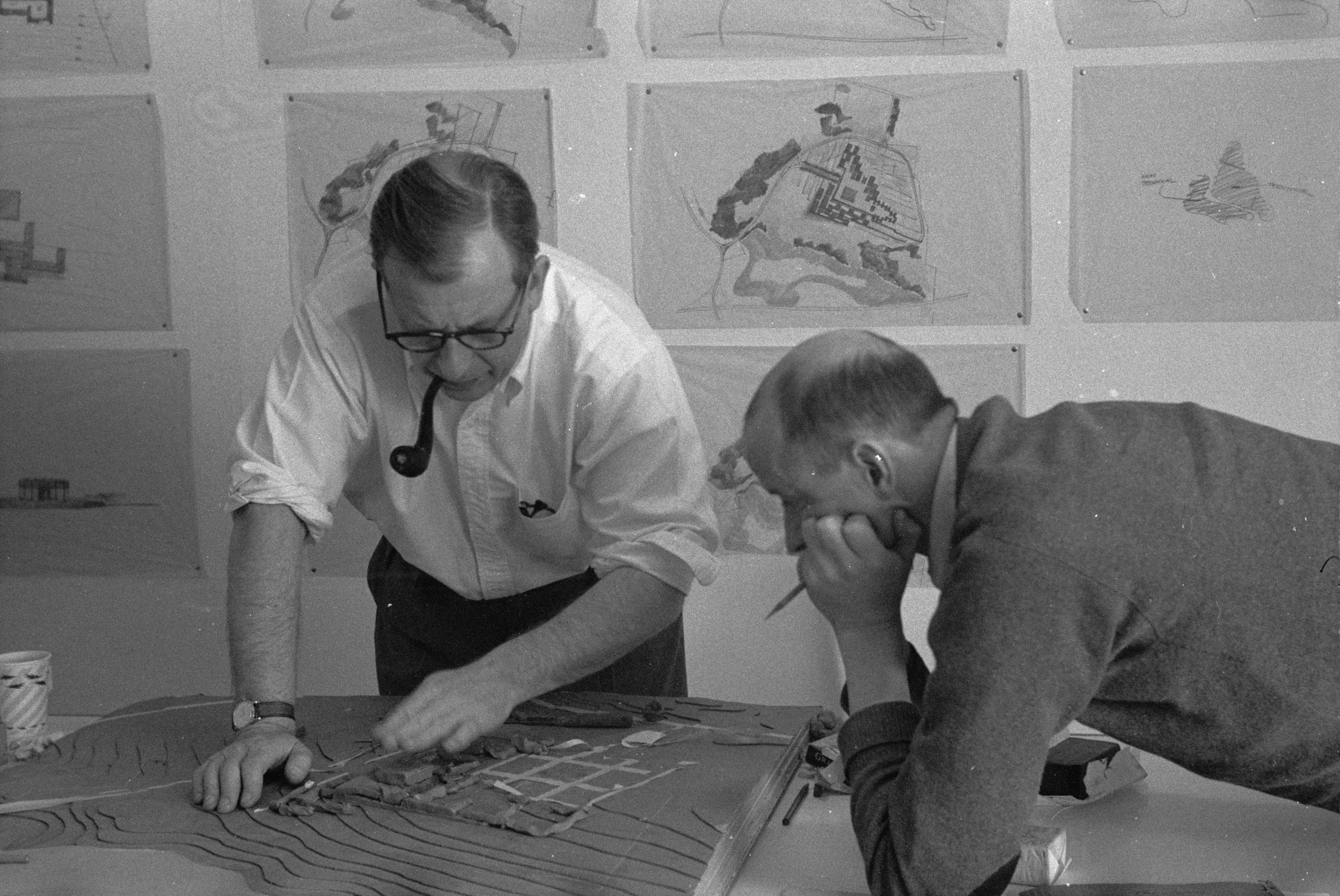 Saarinen office staff: Eero Saarinen (left) and Kevin Roche, Bloomfield Hills, Michigan